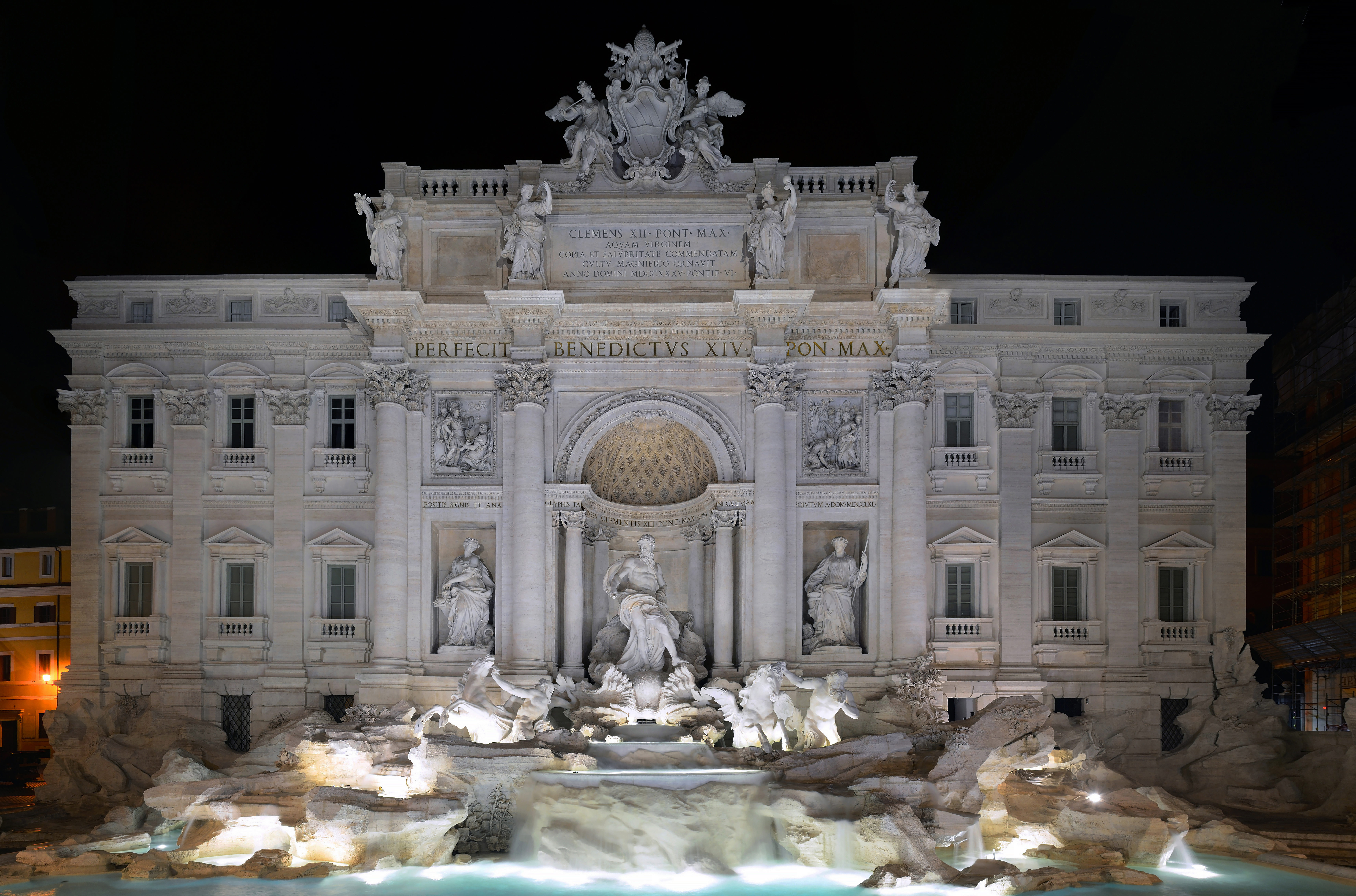 Panorama of Trevi fountain 2015